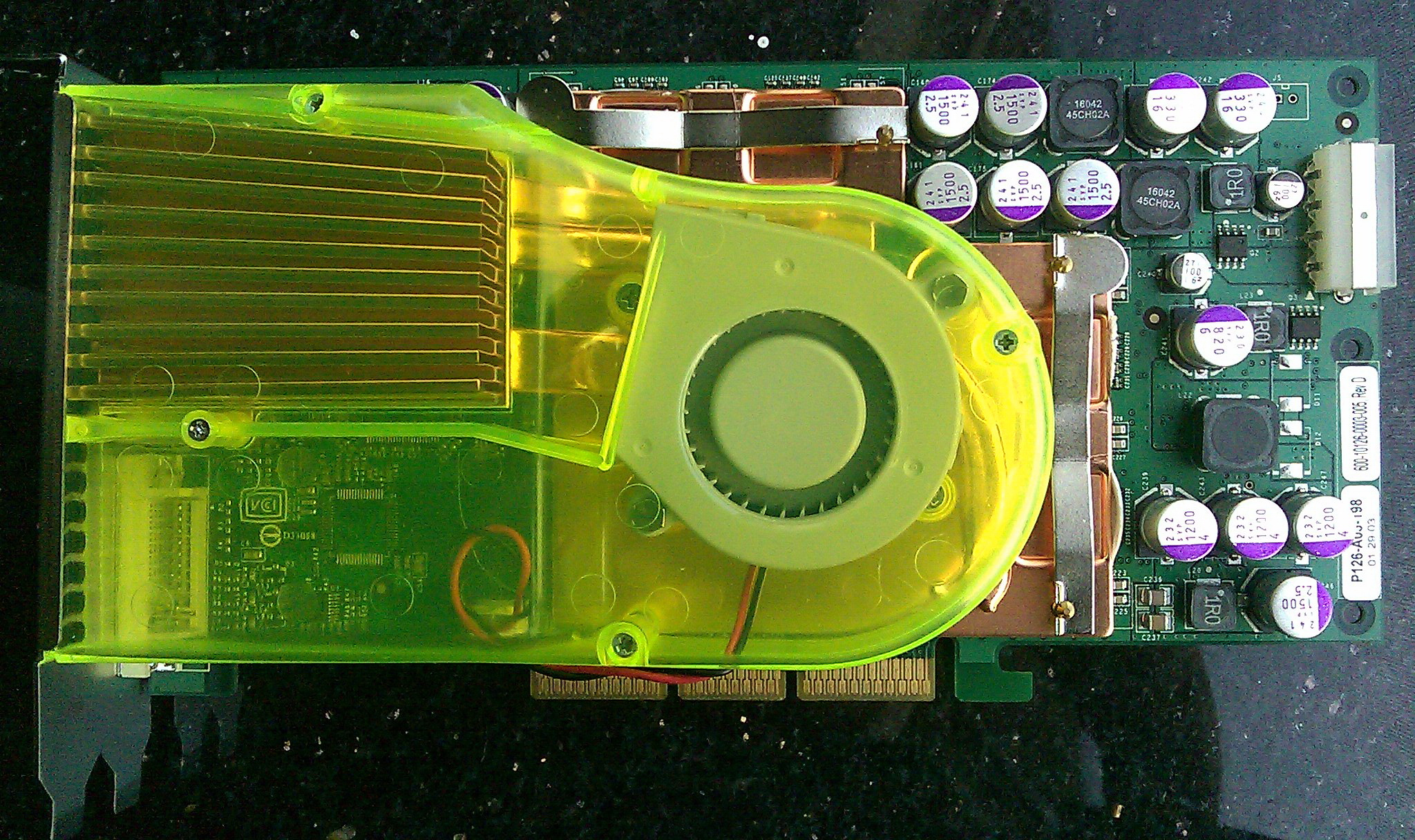 NVIDIA GeForce FX 5800 Ultra Graphic card